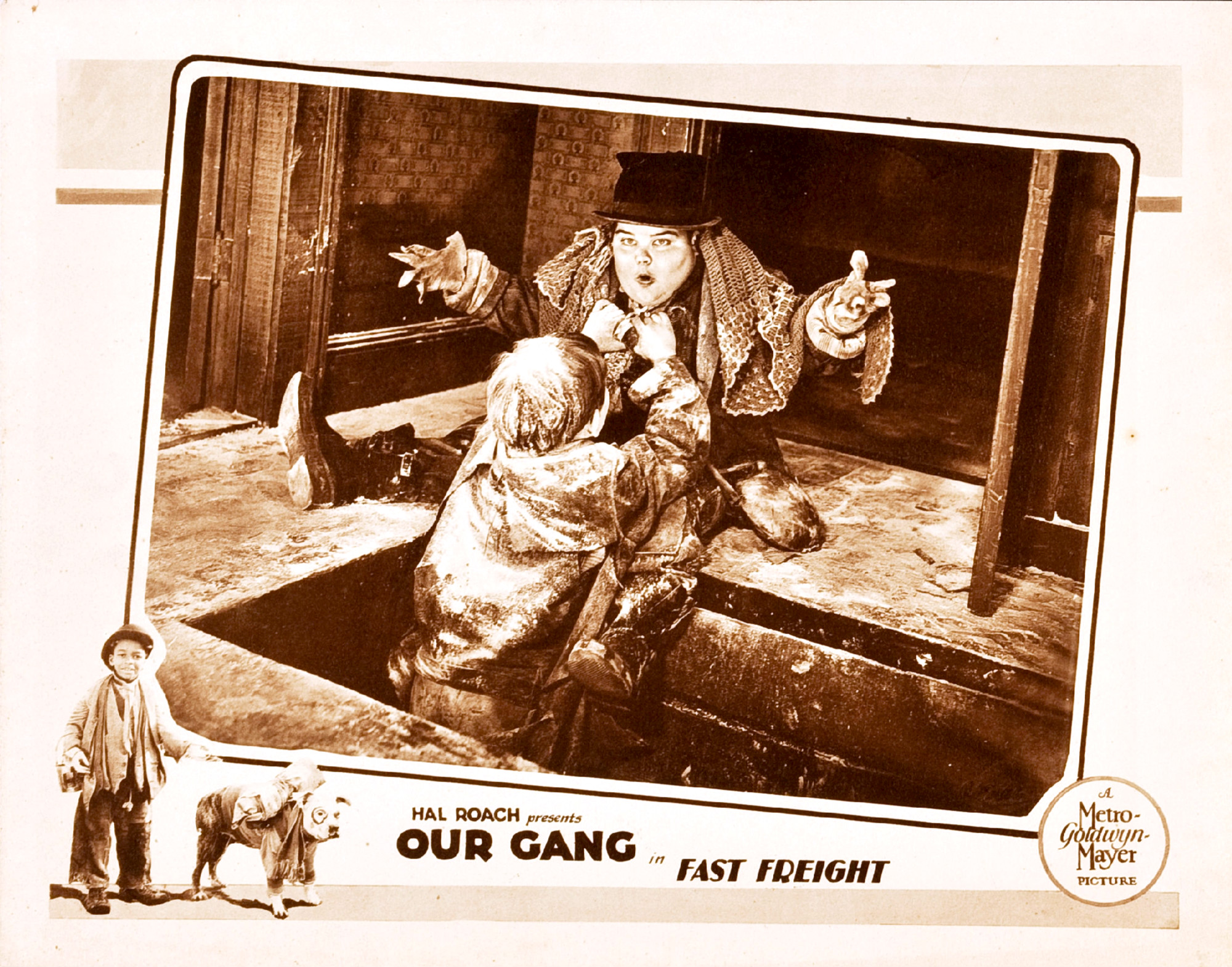 Lobby card for the American comedy short film Fast Freight (1929). The item has no copyright markings on it as can be seen in the links above.